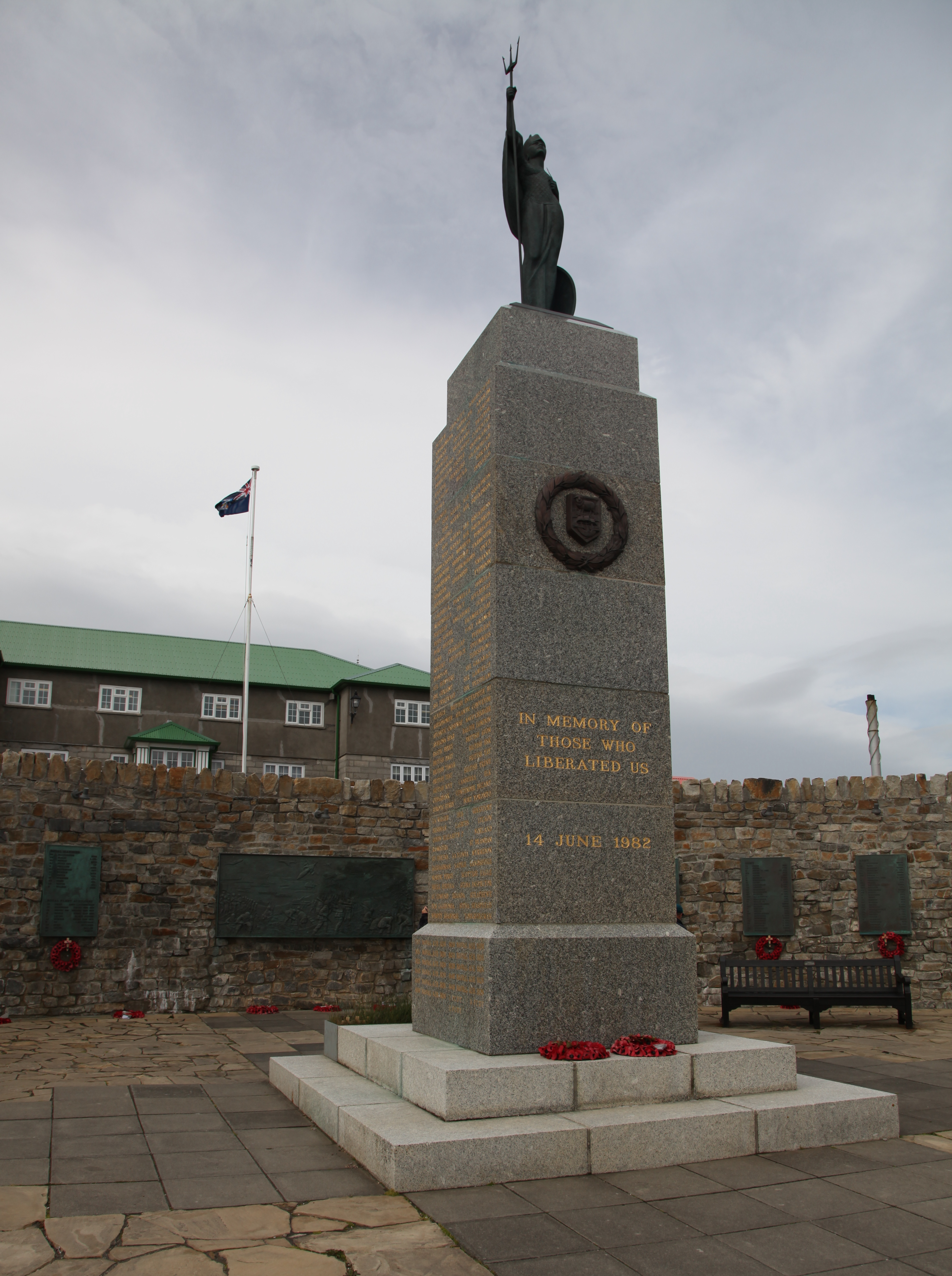 Commemorating the British lives lost during the Falklands War.